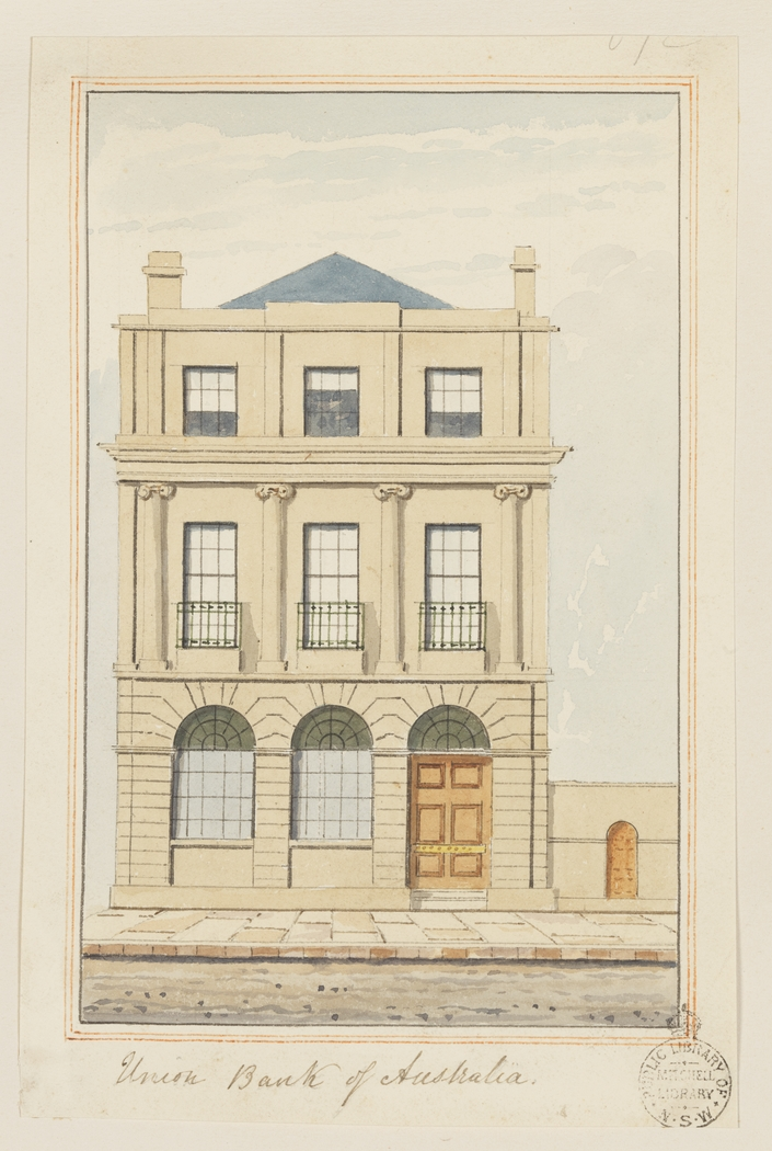 Painting of a bank building in Sydney, New South Wales, in the 1840s